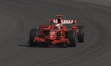 Kimi Räikkönen driving for Scuderia Ferrari at the 2008 Spanish Grand Prix.